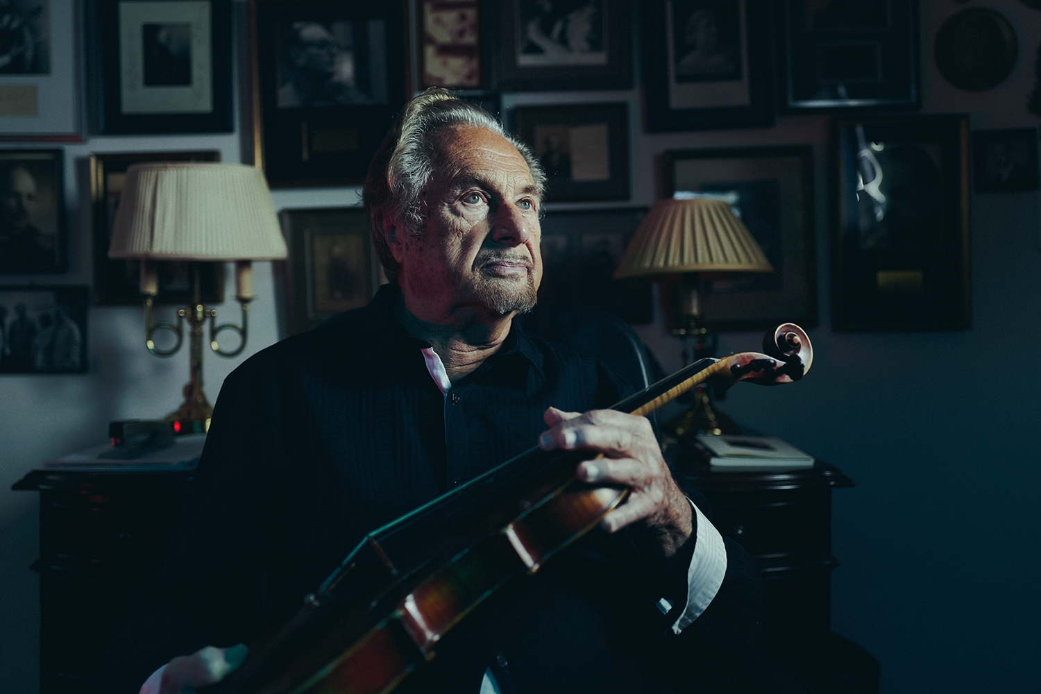 Aaron Rosand in 2016 at his home in Scarsdale, NY (photo courtesy of Franck Bohbot)